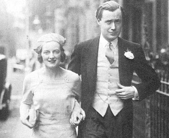 Diana Spencer-Churchill